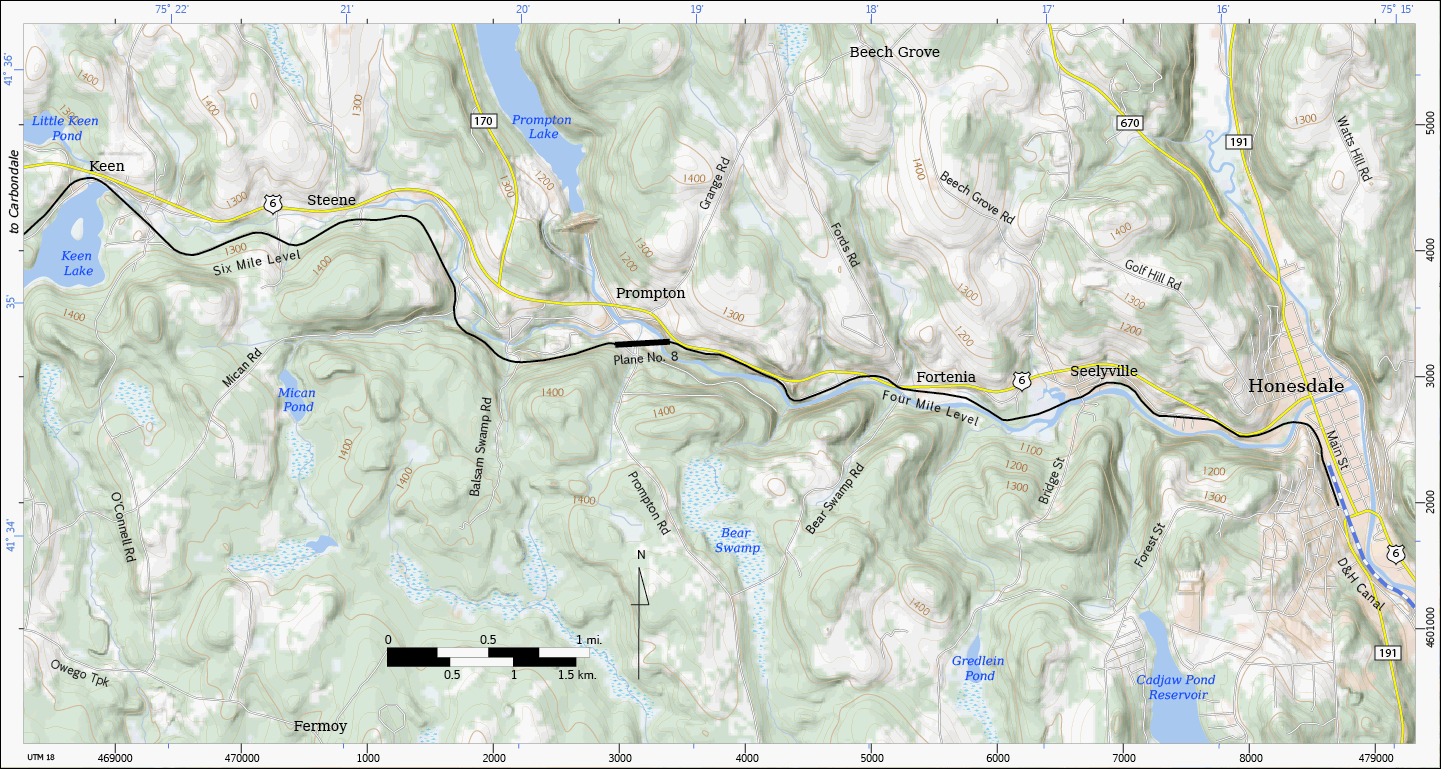 Map of the Delaware and Hudson gravity railroad from Waymart to Honesdale as built in 1829.